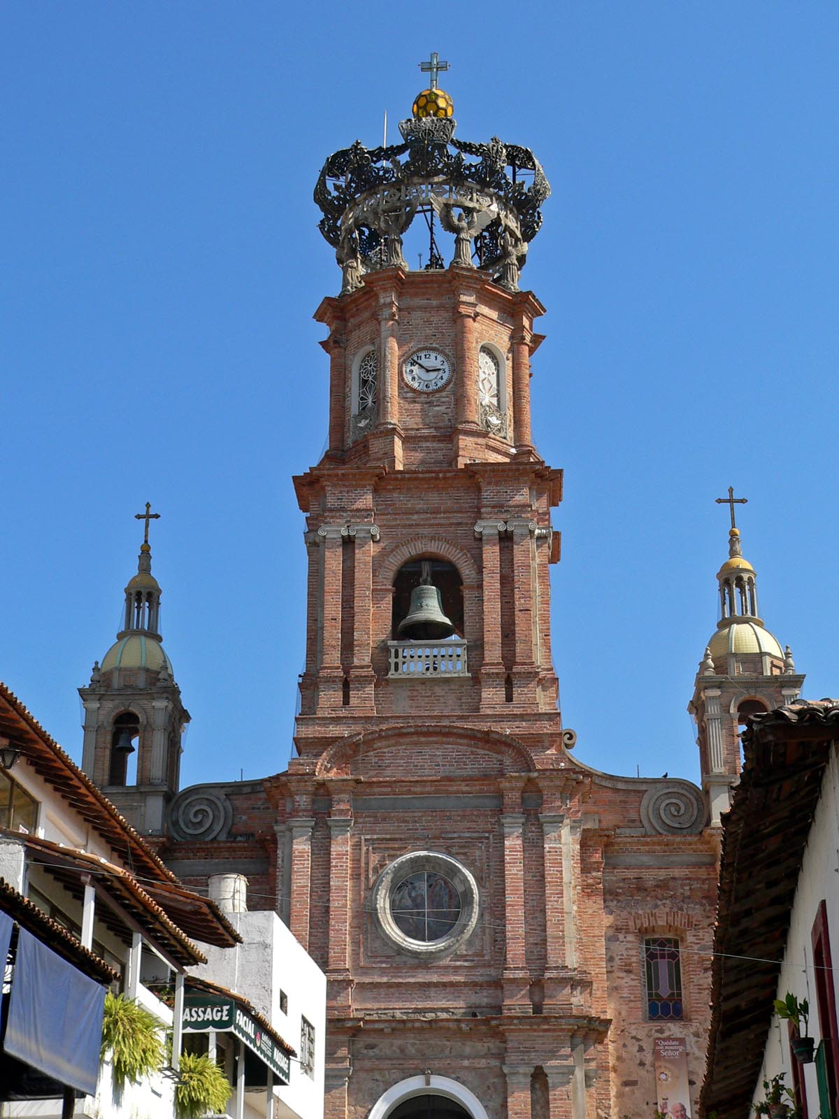 Puerto Vallarta cathedral, Jalisco, Mexico